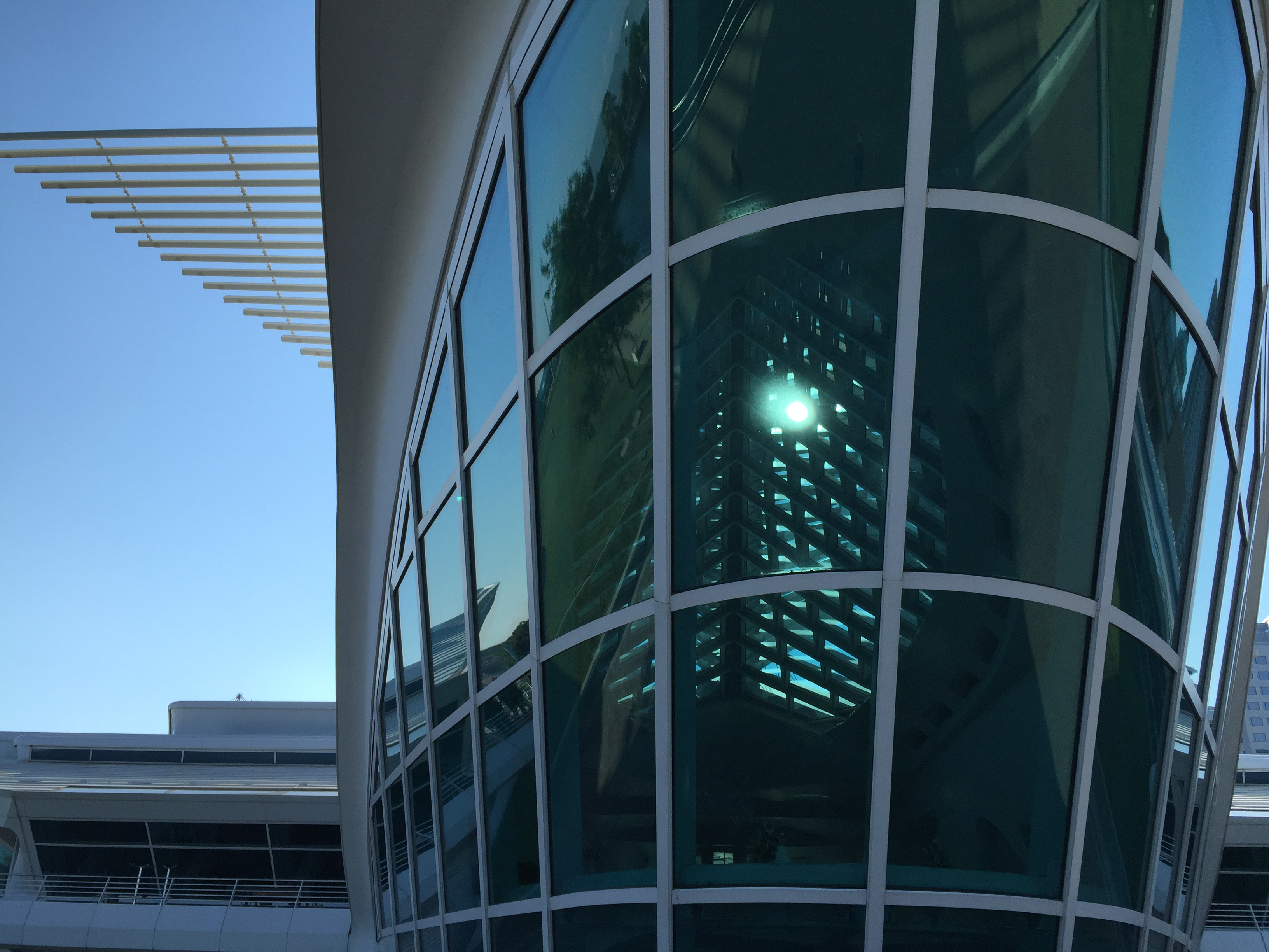 The late afternoon sun shines through all the glass surfaces right through at the central vestibule of the Milwaukee Art Museum on the city's Lakefront